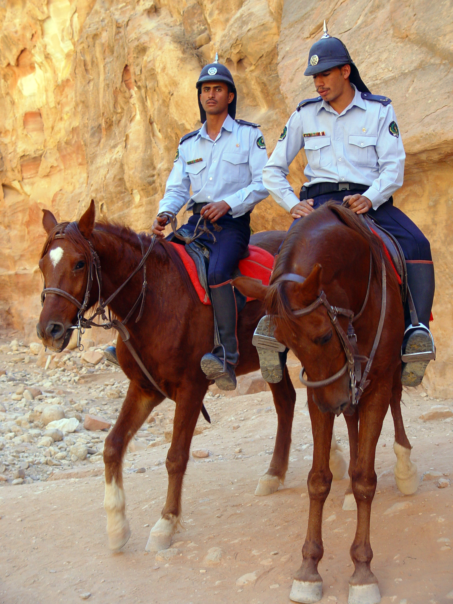 mounted Tourist-Police officers in Petra, (Jordan)